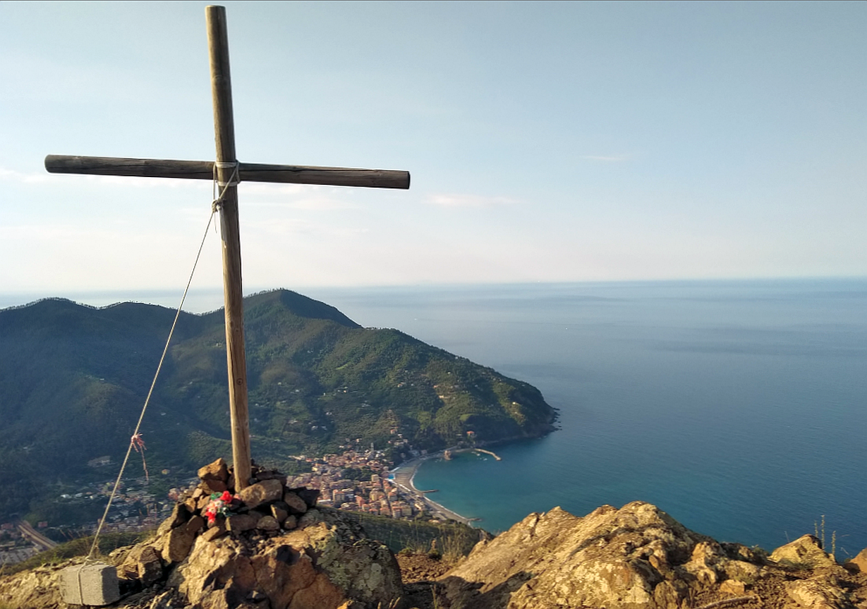 Monte Rossola (Liguria, Italy): summit cross